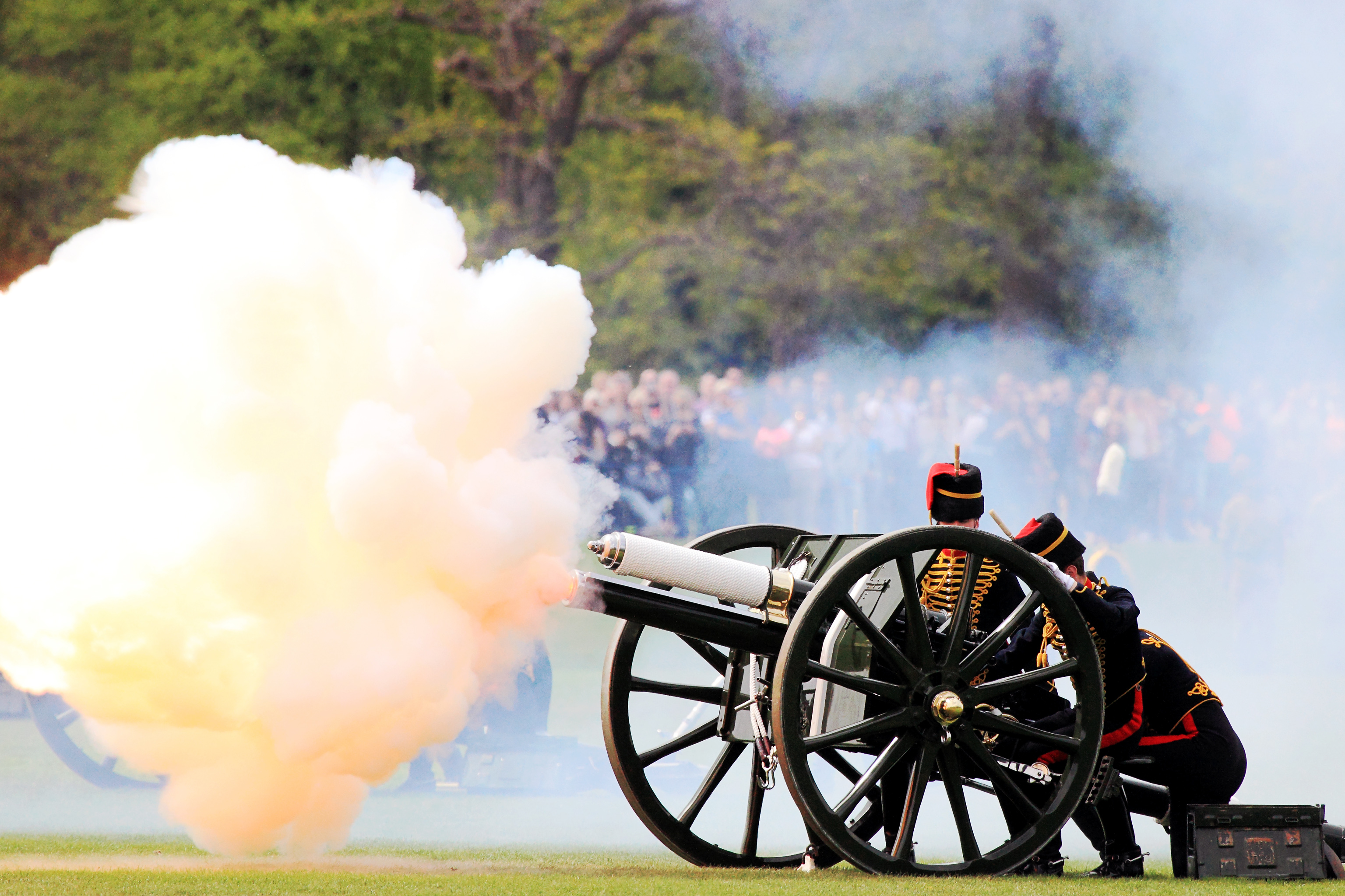 A celebration to mark the birth of the latest member of The British Monarchy, Her Royal Highness Princess Charlotte of Cambridge.